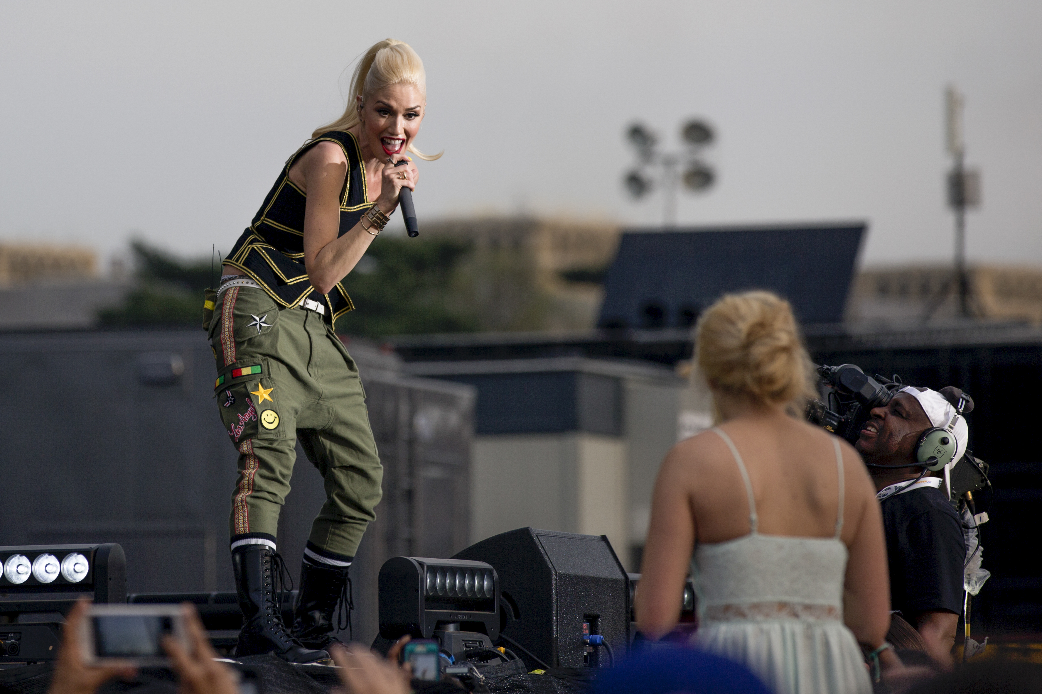 Gwen Stefani of No Doubt at Global Citizen 2015 Earth Day in Washington DC